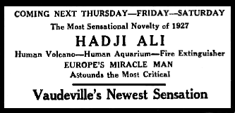 This image is a faithful digitalization of an advertisement of a performance by Hadji Ali at New York's Empire Theater.